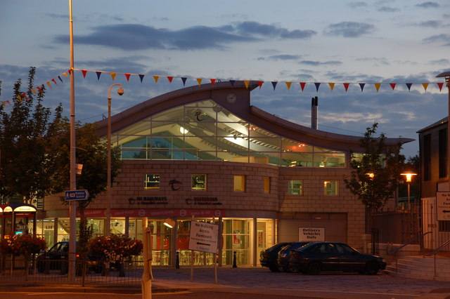 Bangor railway and bus station. The combined railway and bus station was formally opened in 2001 replacing structures popular with pigeons. There is a combined booking office, newsagents, heated toilets and a real café serving real food and which attracts customers who are not using public transport.